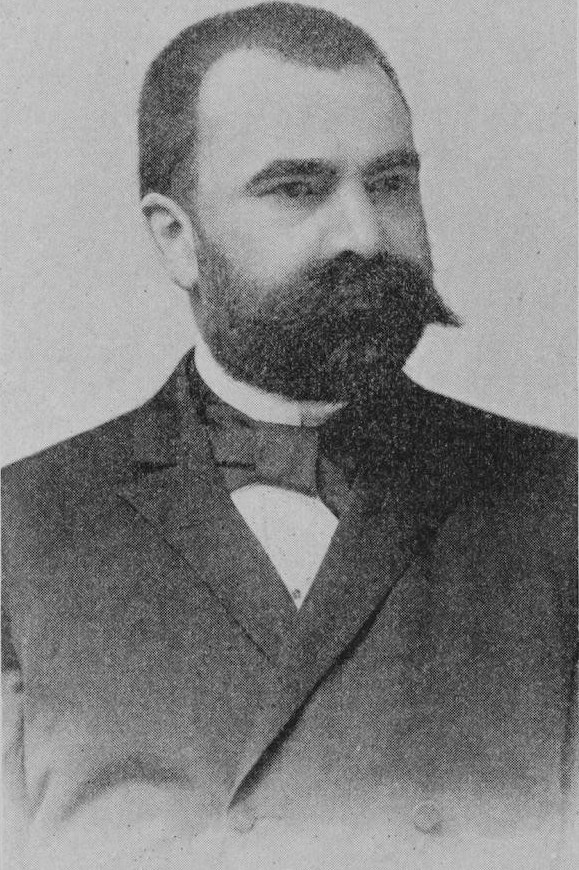 Portrait of Rudolf Dvořák (1860 - 1920), Czech orientalist.